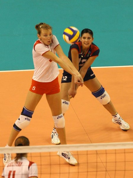 Valeriya Korotenko